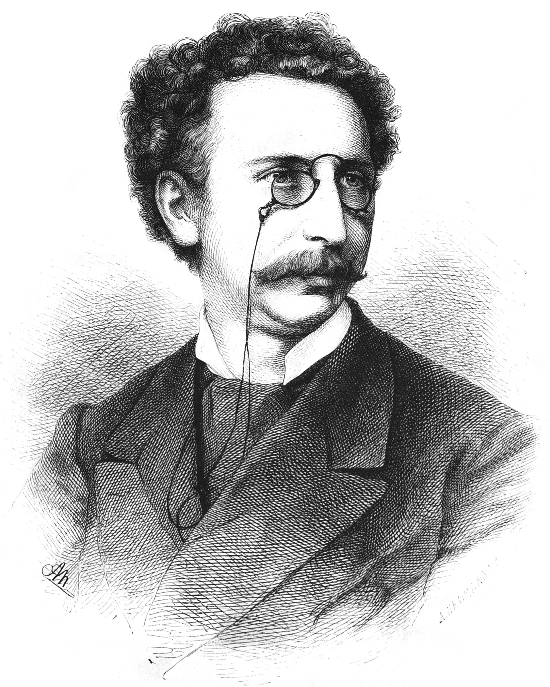 caption: "Paul Lindau. Nach einer Photographie auf Holz gezeichnet von Adolf Neumann."